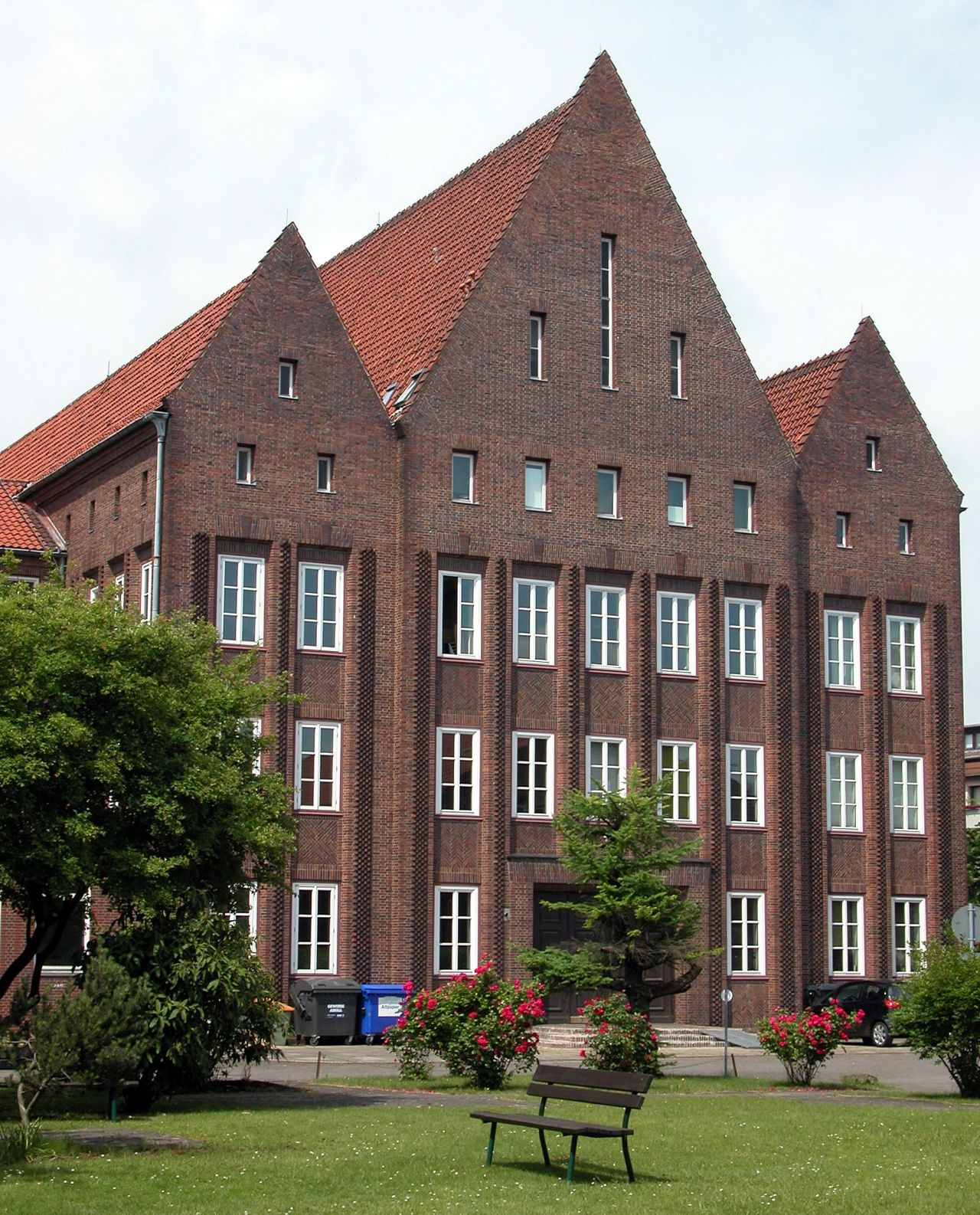 Brunswick, Germany: Rear of the Museum of Natural History.